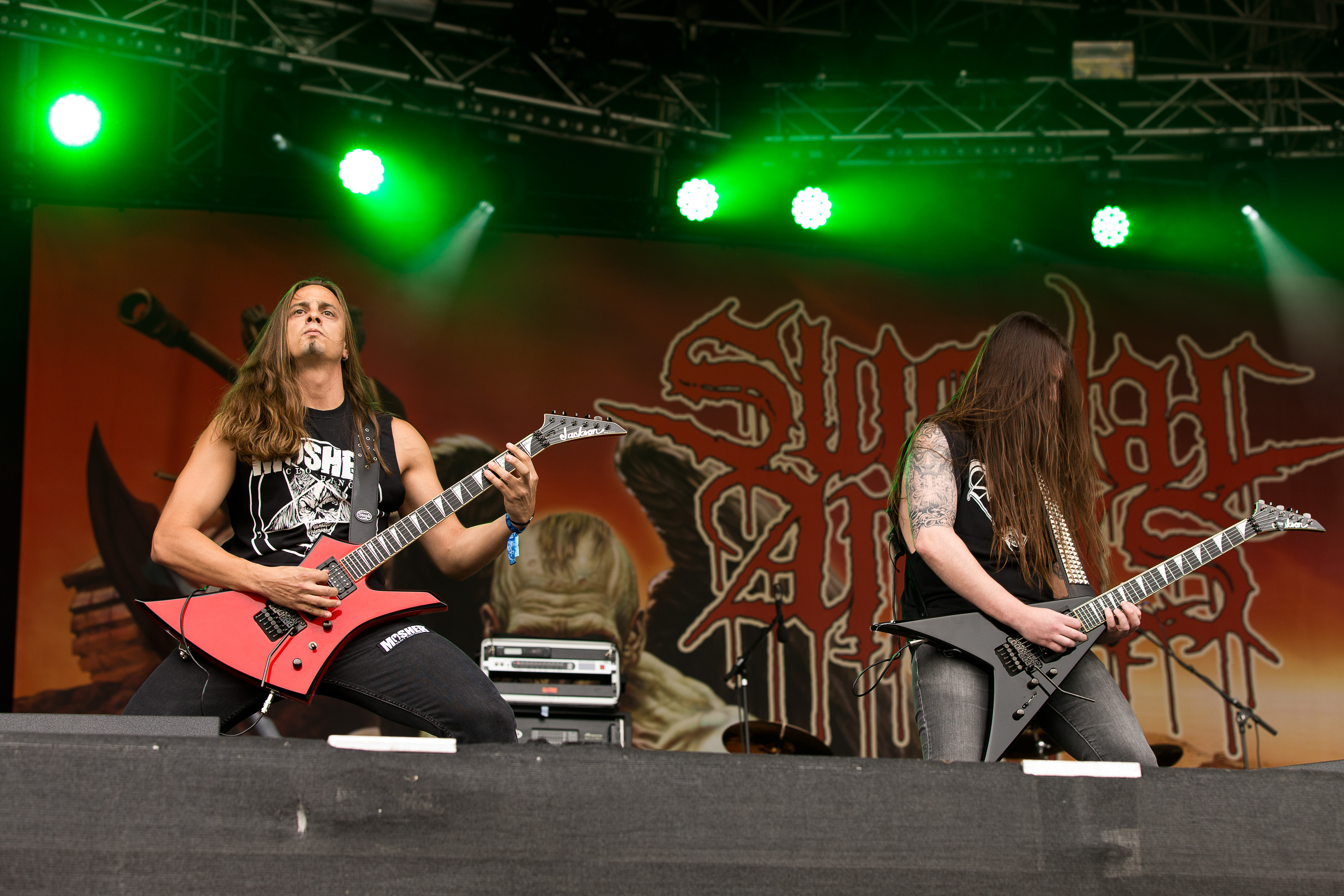 The Greek thrash metal band Suicidal Angels at the Rockharz Open Air 2016 in Ballenstedt/Germany.